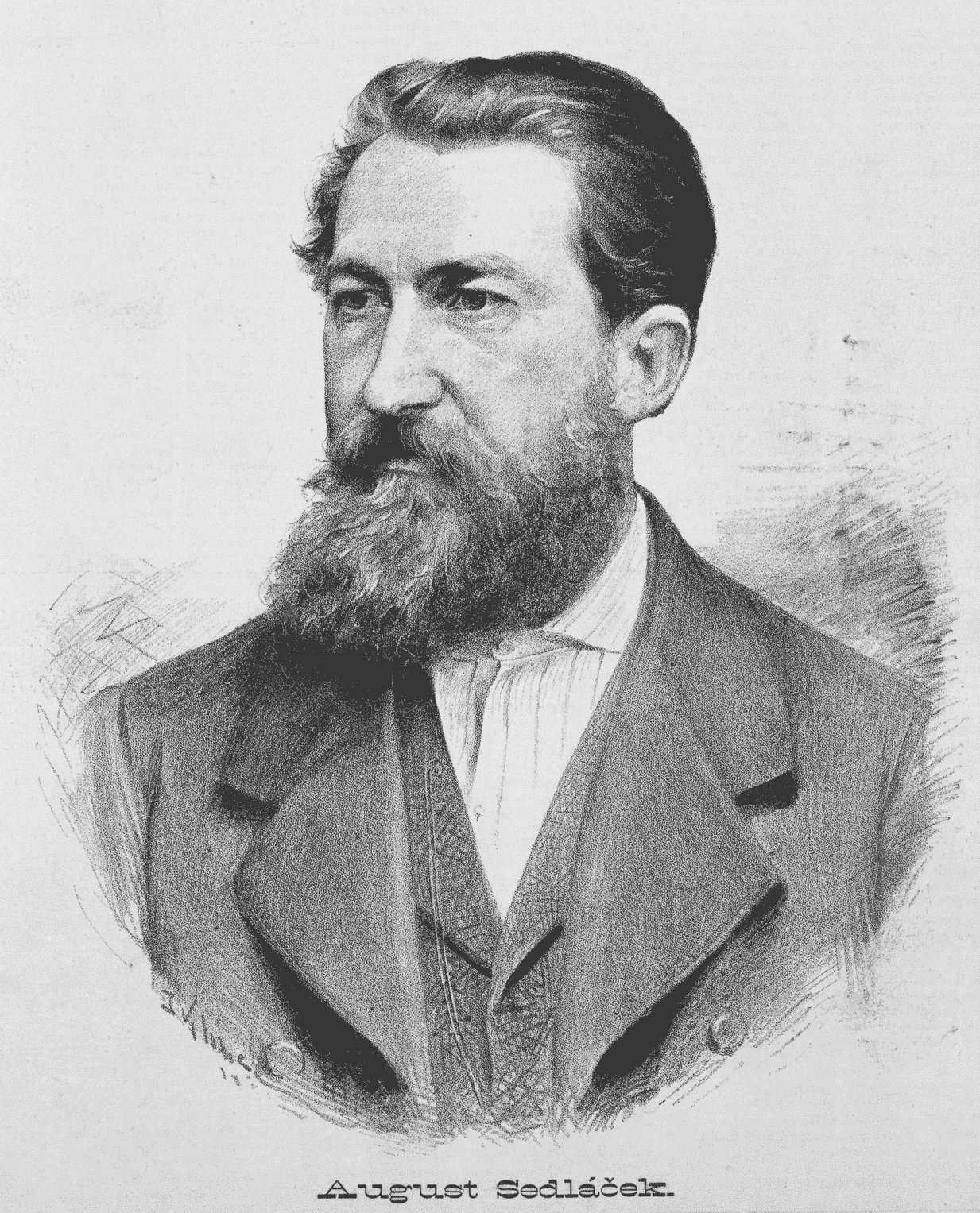 Portrait of August Sedláček, Czech historian